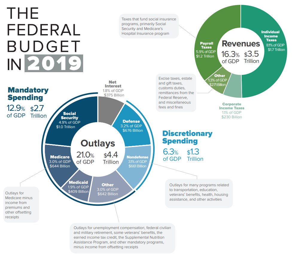 An infographic breaking down the 2019 United States Federal Budget, breaking down the components of spending and revenues.